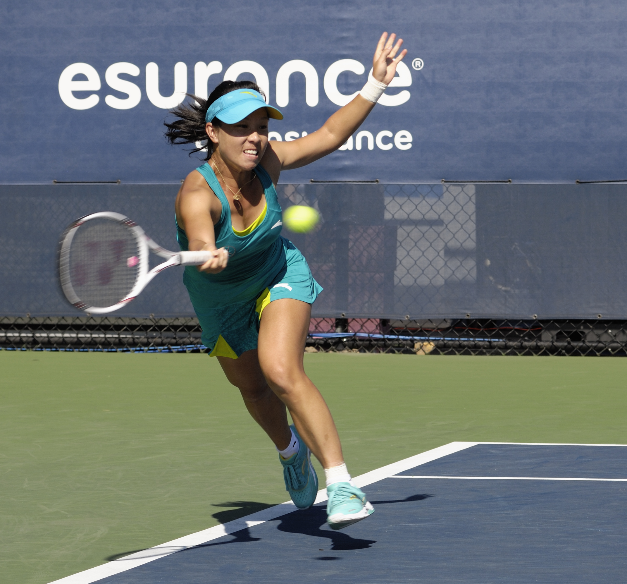 Zheng Jie at the 2011 US Open